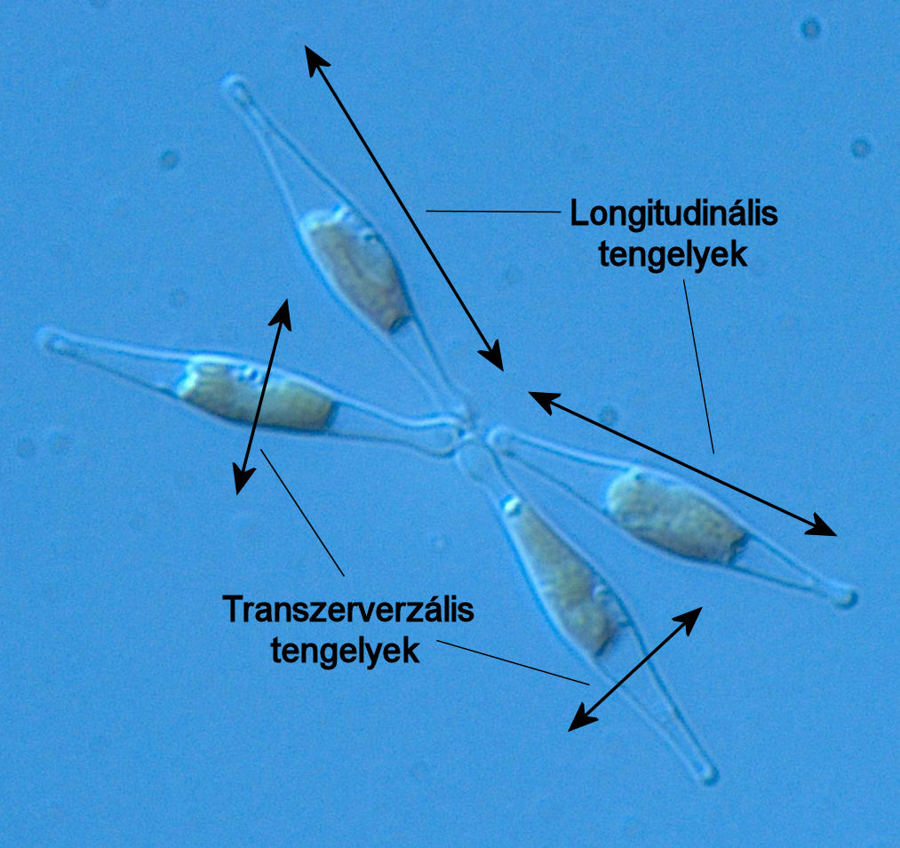 My modification of image Phaeodactylum_tricornutum.png contributed by user:Ayrcop, showing axes of symmetry.